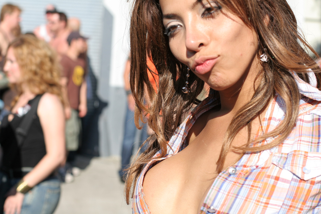 (One of a few...)